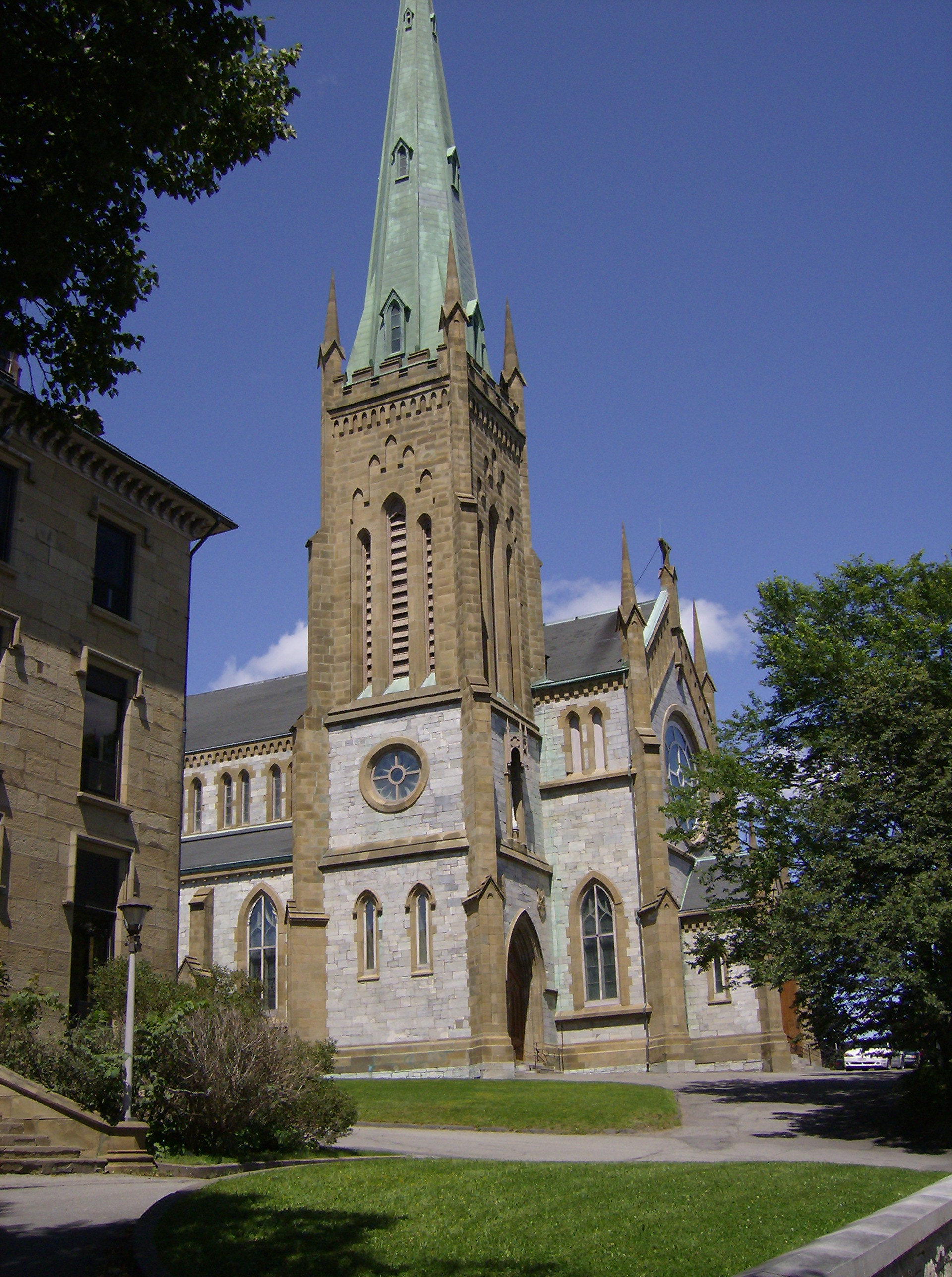 Exterior of the Cathedral and Rectory on Waterloo Street, Saint John NB